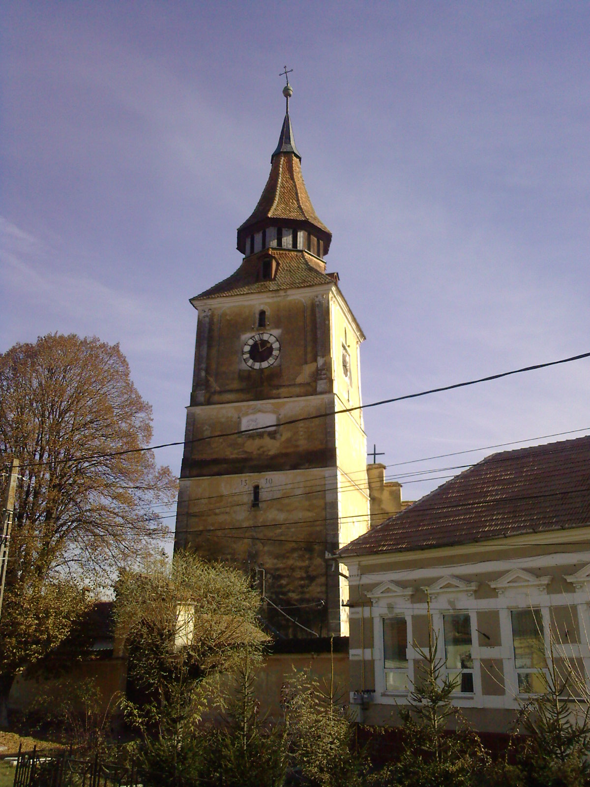 Evangelical-Lutheran Church, Bod, Brasov County, Romania